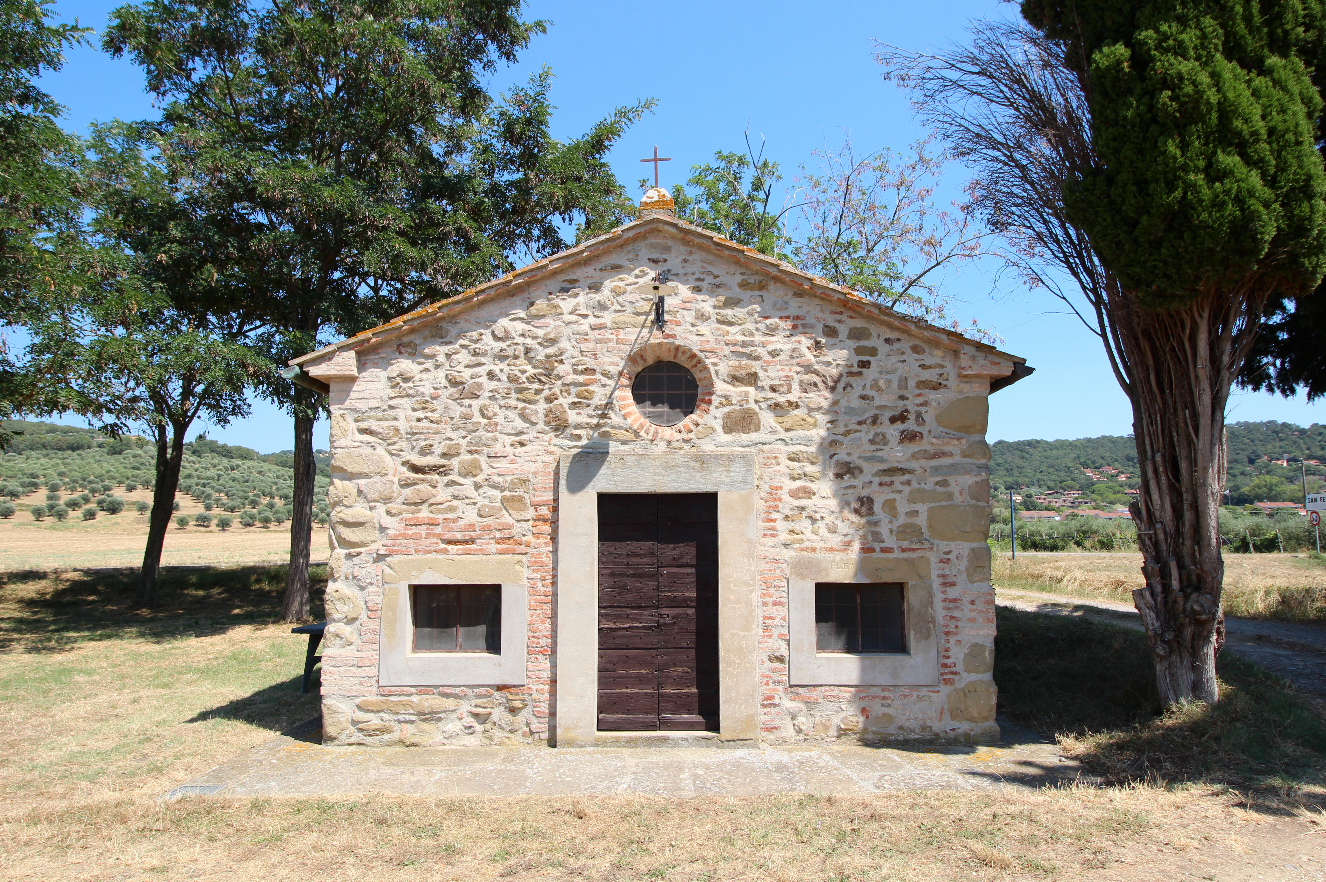 Church Madonna della Neve, outside and north of San Feliciano, hamlet of Magione, Umbria, Italy